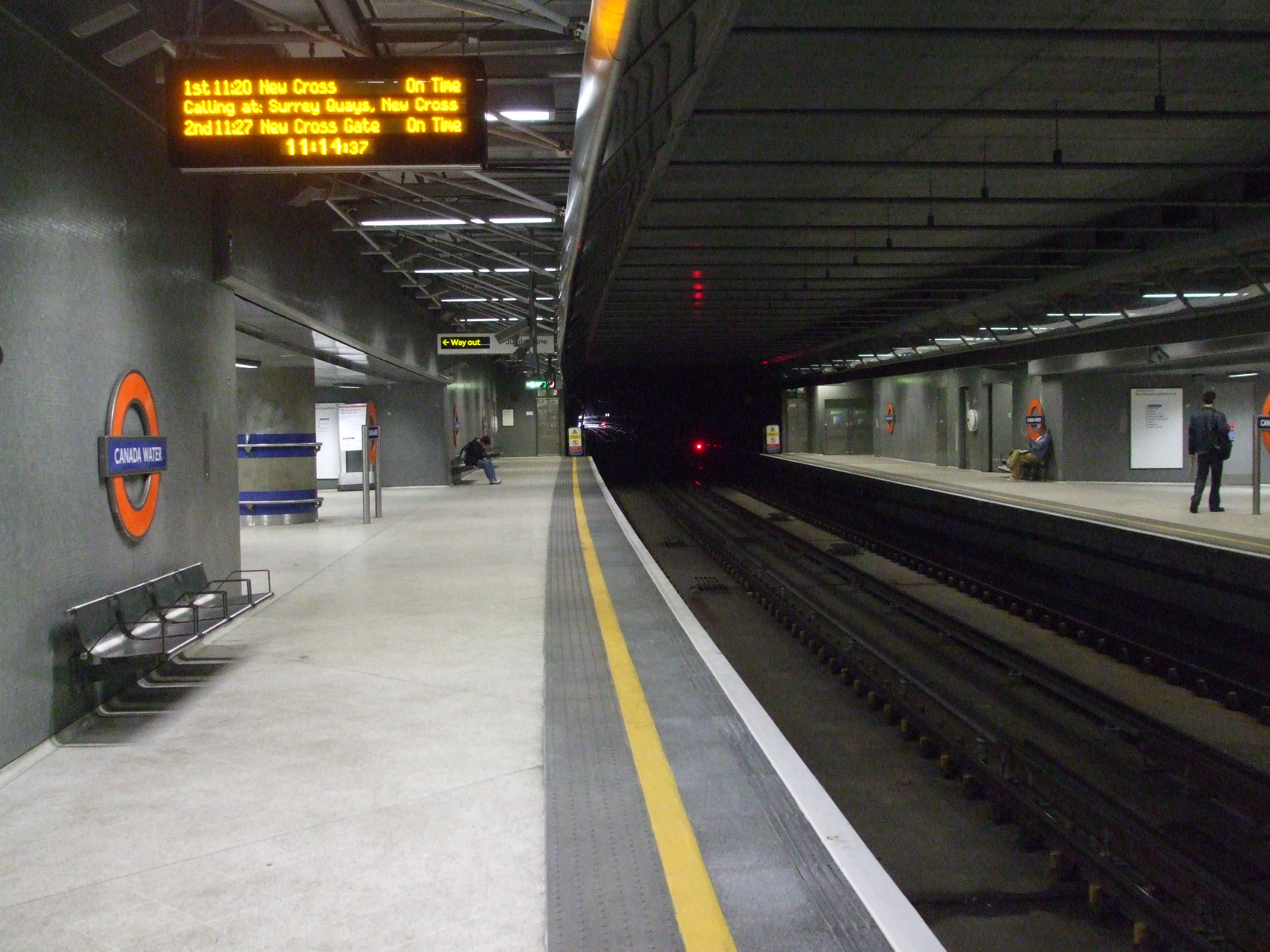 Canada Water station East London Line platforms looking south, a day after re-opening as part of London Overground